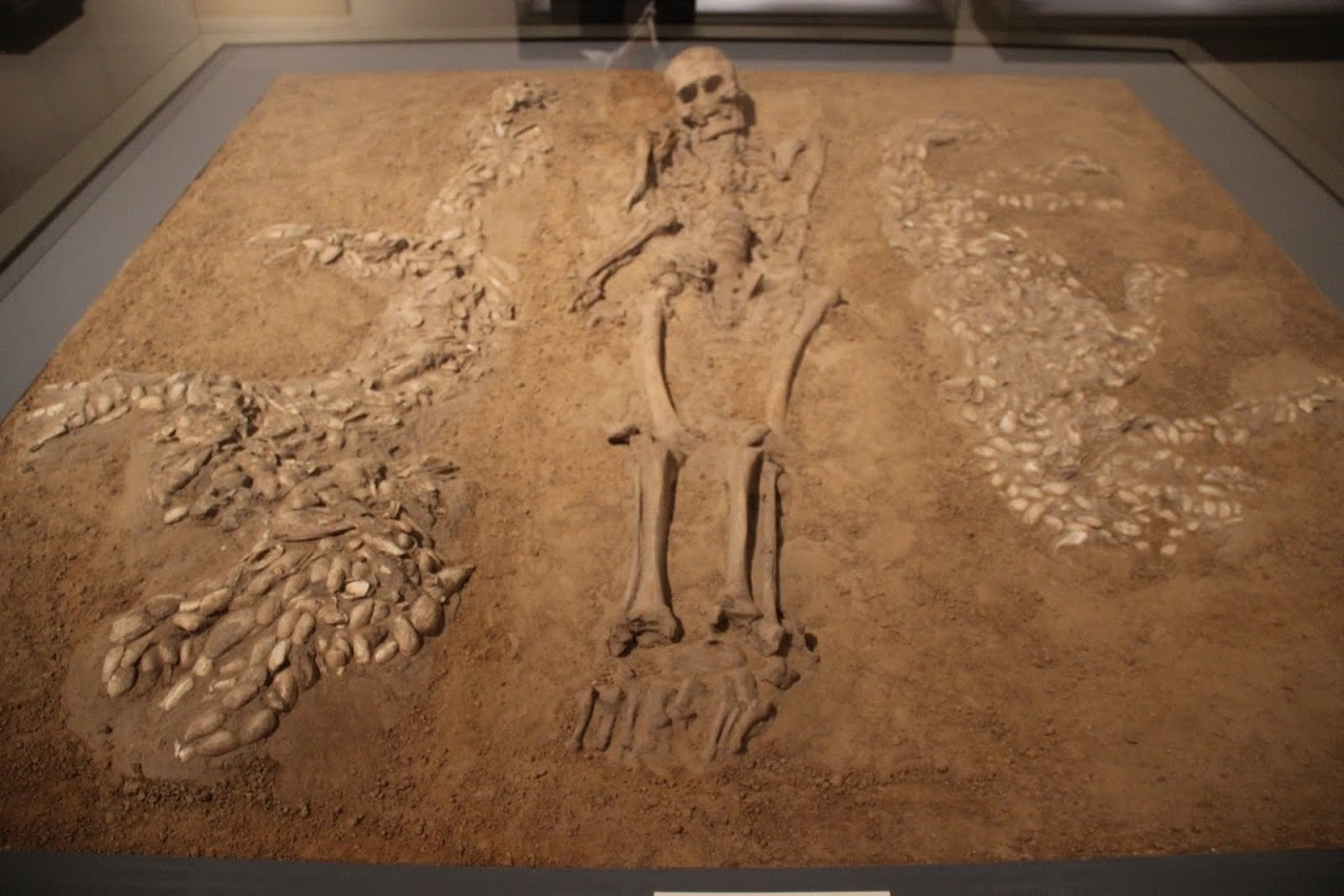 Human - a man - burial and shell mosaics from Xishuipo, Henan. Yanshao culture. National Museum Beijing. Ref. : Li Liu and Xingcan Chen : The Archaeology of China, 2012, p :197